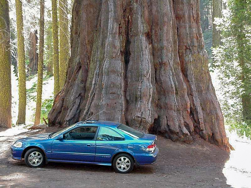 A Giant Sequoia.